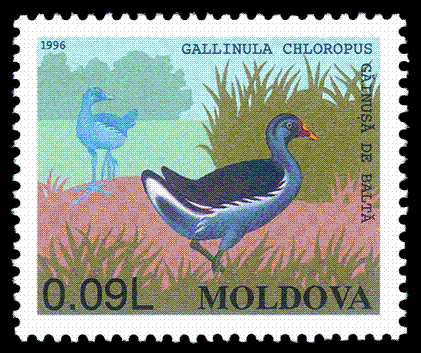 Stamp of Moldova